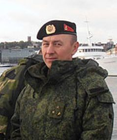 Yeremeyev, Vladimir Veniaminovich - Russian major general.